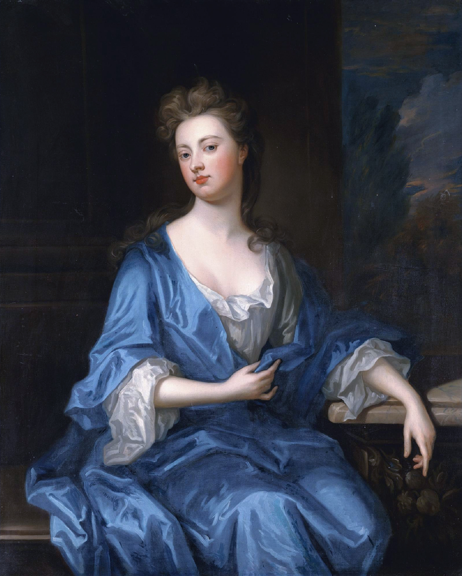 Faithful reproduction of the two-dimensional portrait of Sarah Churchill, Duchess of Marlborough by Sir Godfrey Kneller